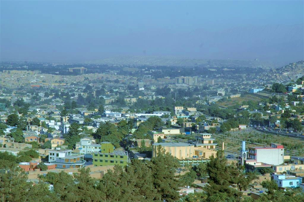 View of Kabul City in 2005